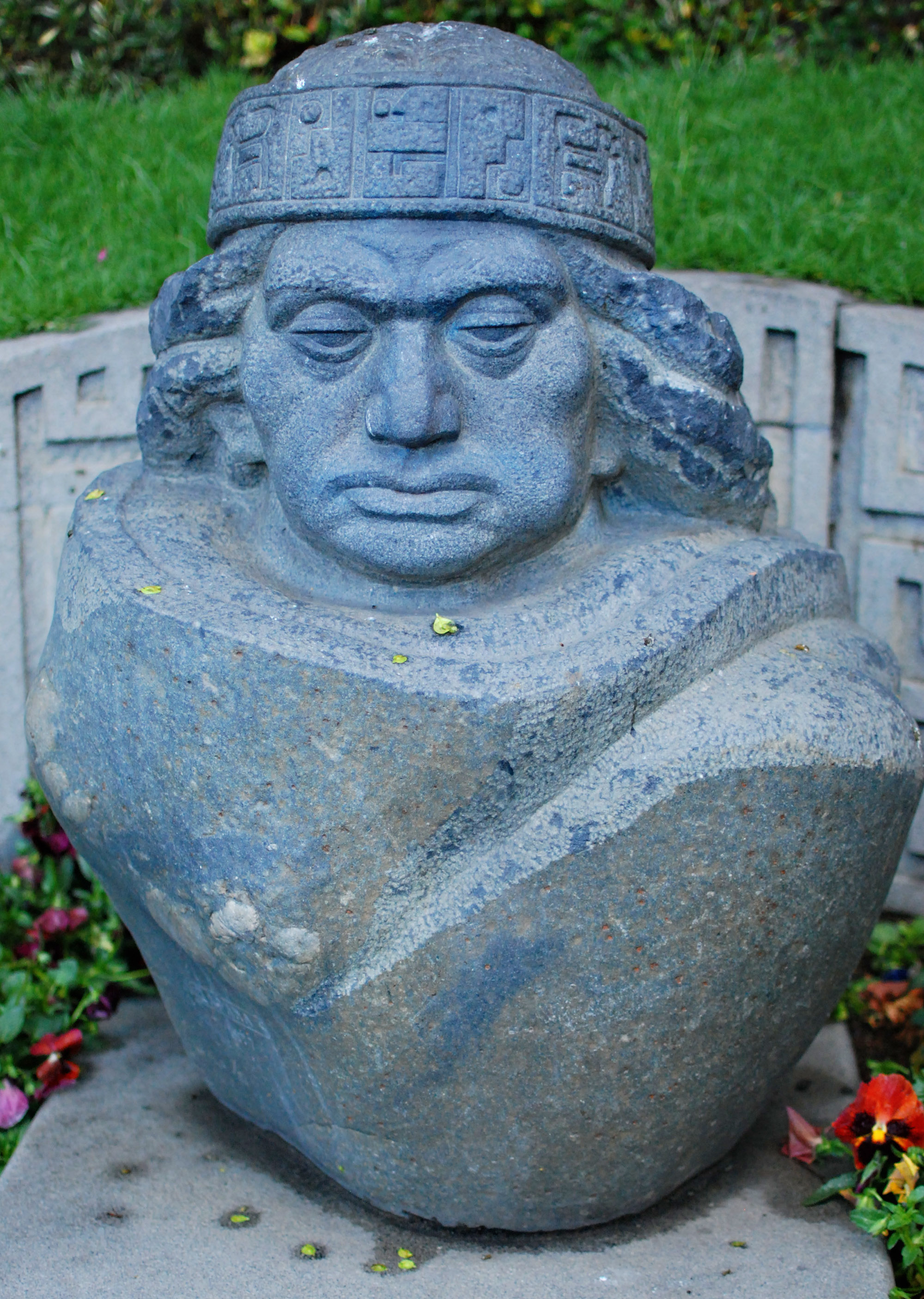 A statue of Huyustus located in La Paz, Bolivia.